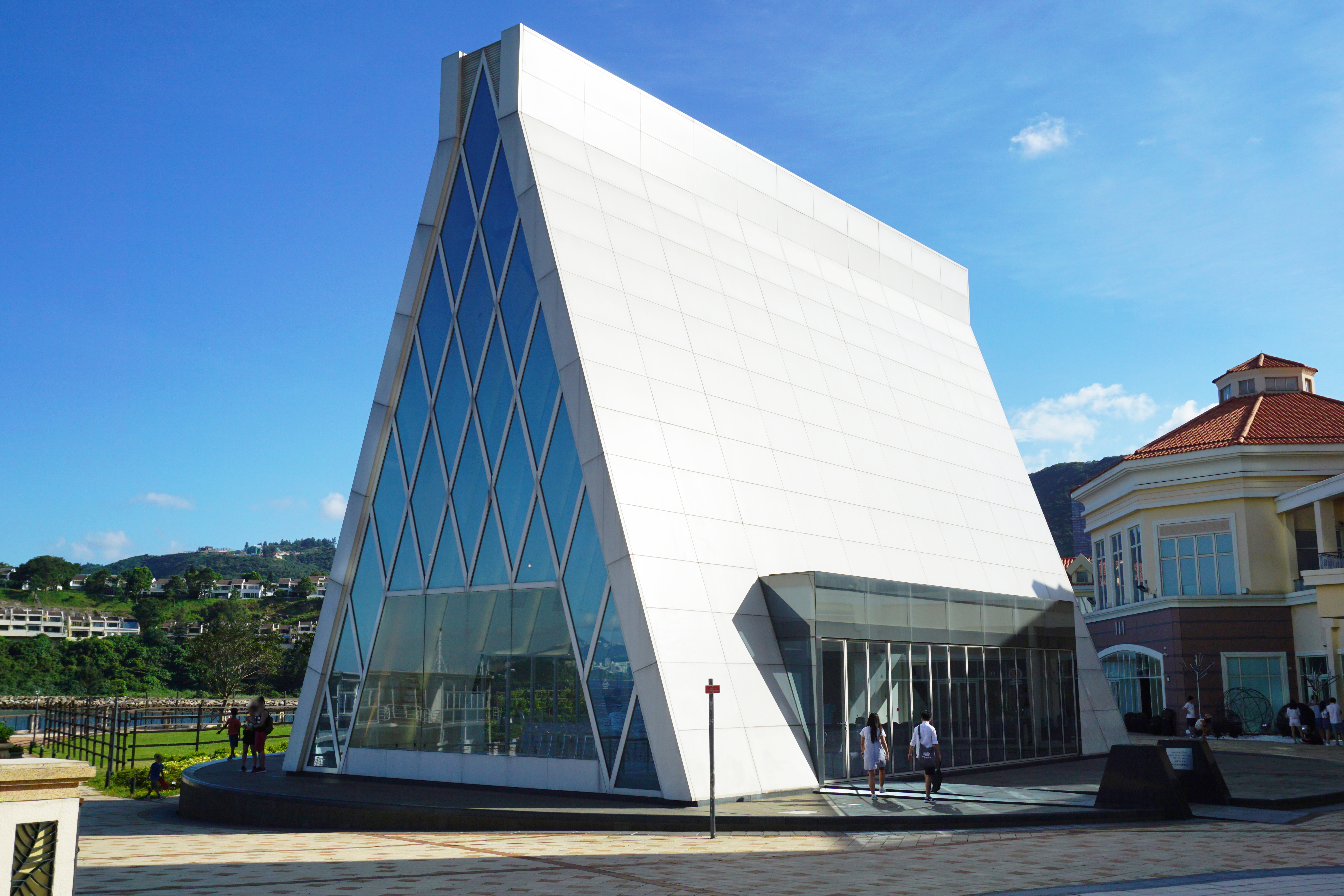 White Chapel in Discovery Bay, Hong Kong.